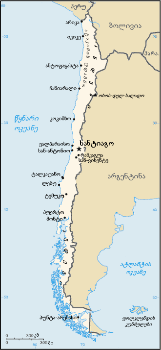 Chile, Georgian